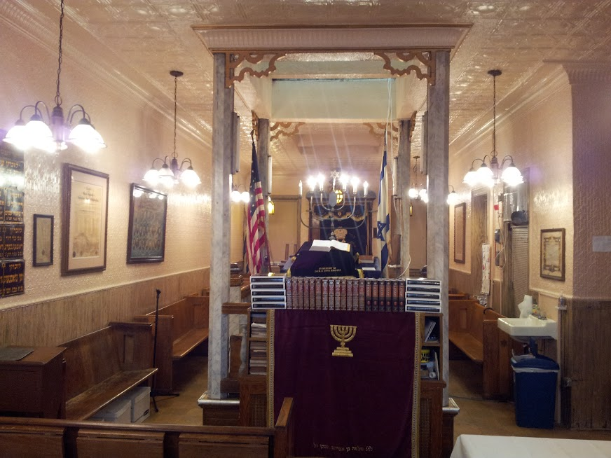 Congregation Shivtei Yeshuron-Ezras Israel, 2015 S 4th Street, Philadelphia, Pennsylvania, 19148, (09/05/2014)